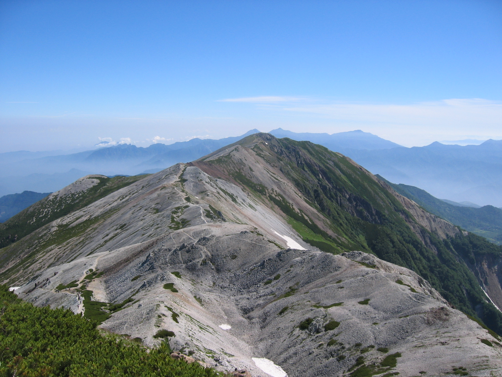 Mt. Korenge in Hida range, Honshu, Japan.